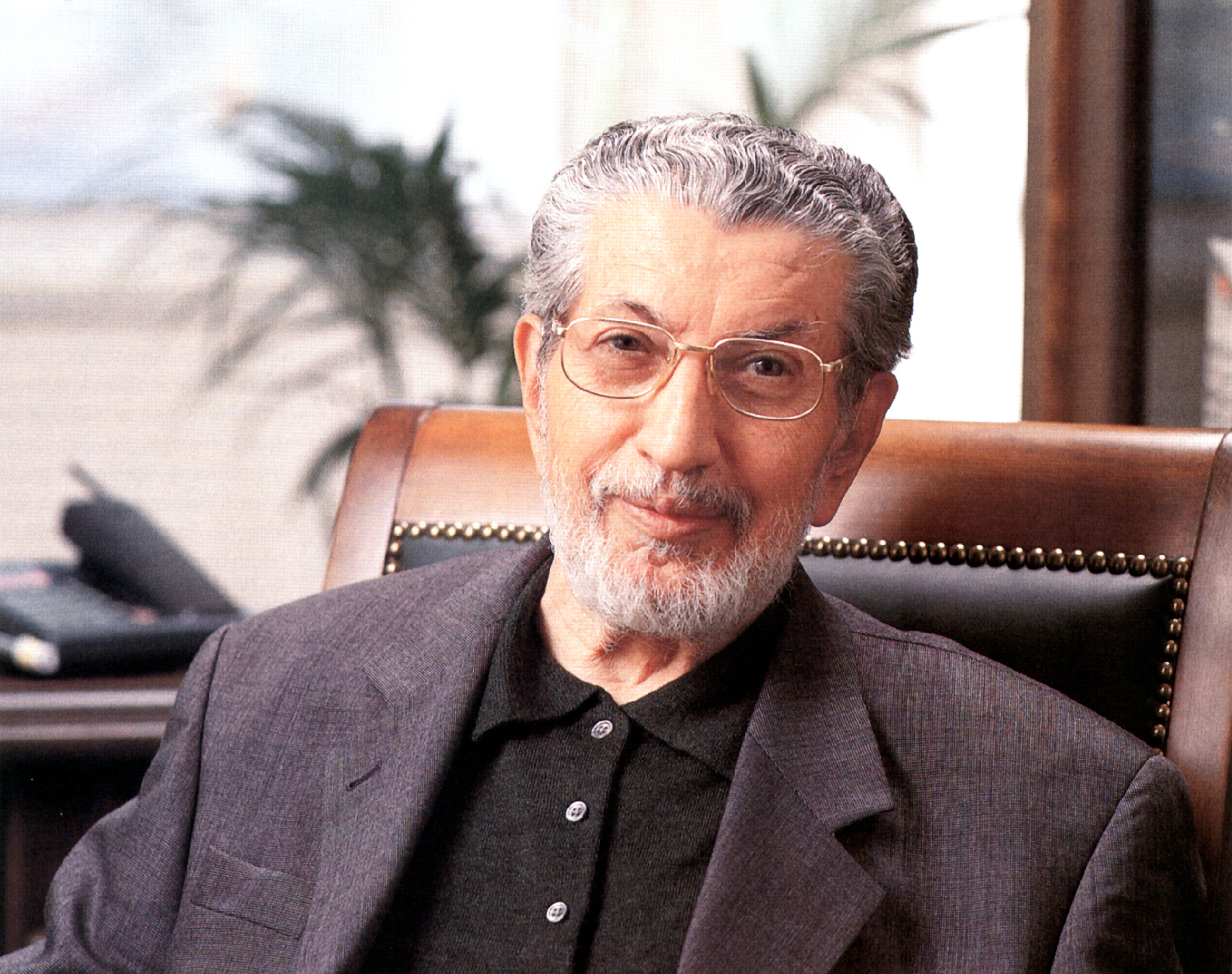 Türkish businessman and industrialist SabriUlker